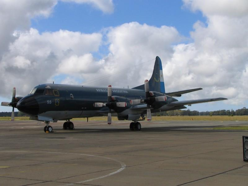 Lockheed P-3B Orion 0871/6-P-55 Martín Otero Base Naval Punta Indio (BAPI) Mayo 2006